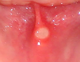 A canker sore (oral ulcer) located on the inside of a human mouth between the front lower teeth and the lower lip. This particular one is about 7 days old and at the peak of its size and pain. It will will likely subside and completely heal within another 7 days.